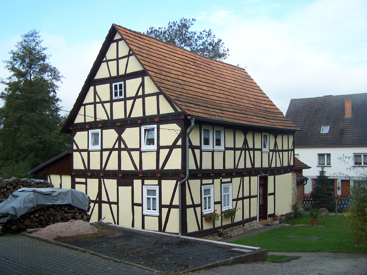 The former mill in Unterellen.